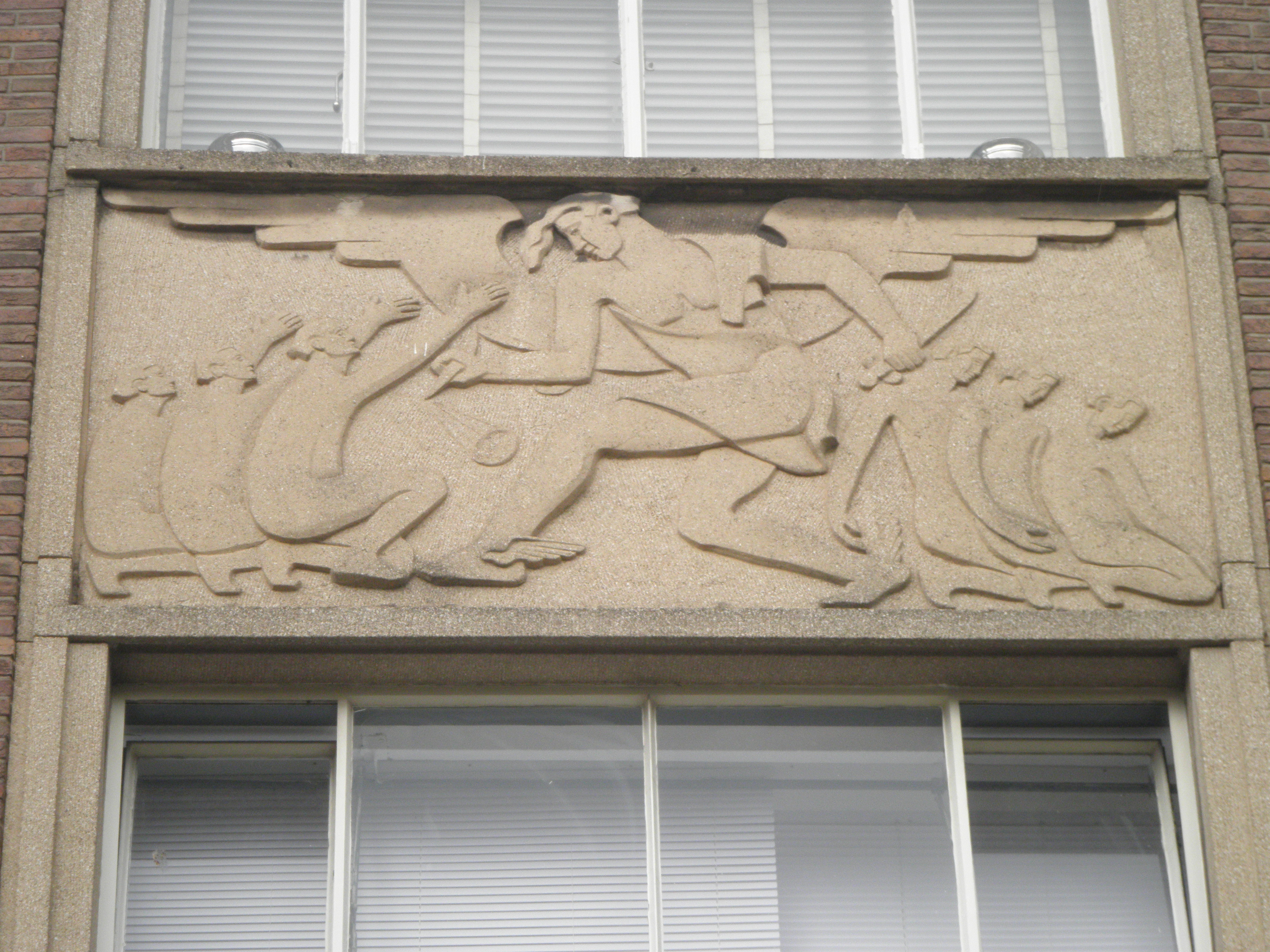 Caerus, relief by Janny Brugman-de Vries over the entrance of the former Alexander Hegius gymnasium at the Nieuwe Markt in Deventer, the Netherlands